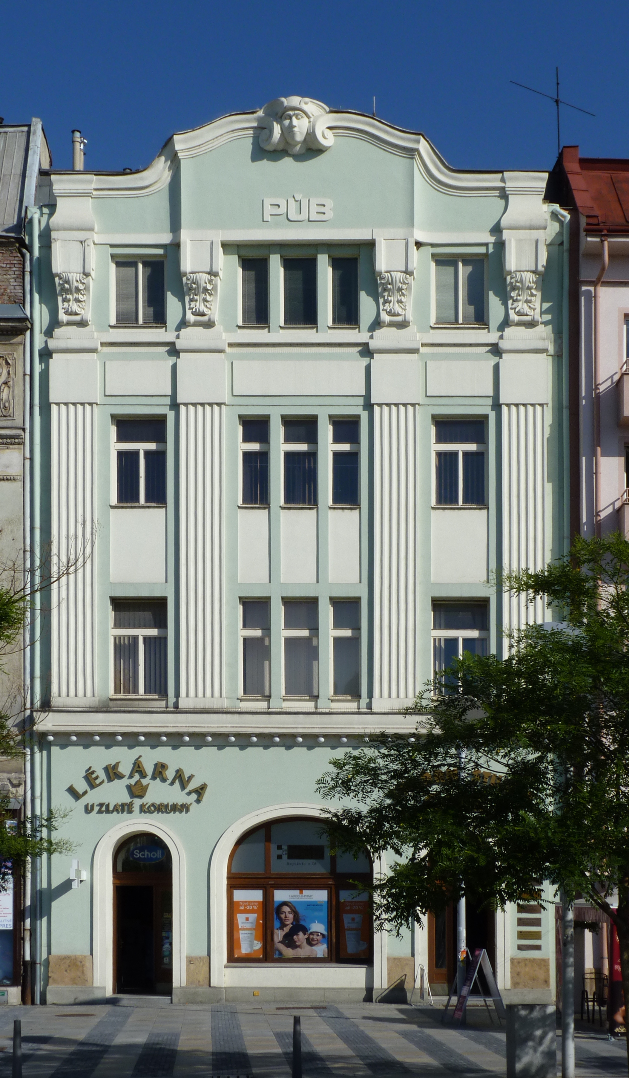 Moravská Ostrava a Přívoz. Ostrava-city District, Moravian-Silesian Region, Czech Republic